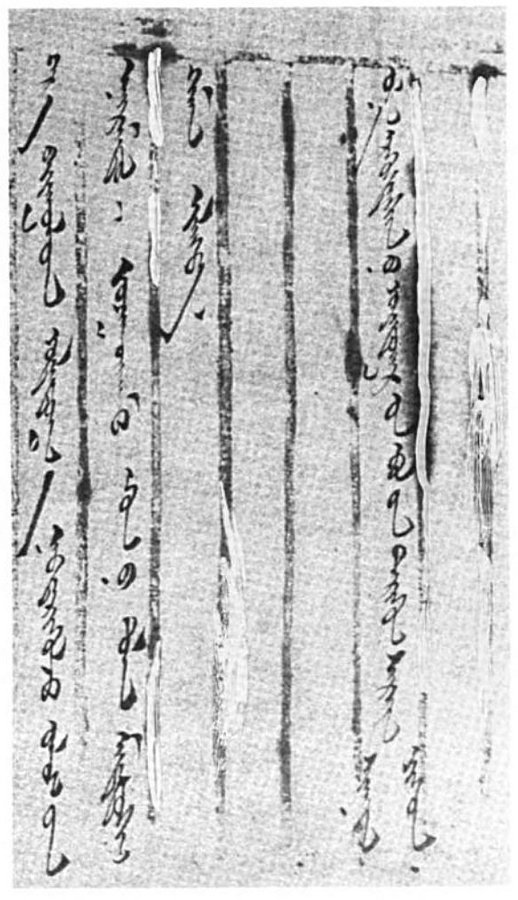 Letter by the Minister of Foreign Affairs of the Mongol Nation, informing the foreign ministeries of France, England, Germany, the USA, Belgium, Japan, Denmark, the Netherlands, and Austria of its national independence. Part 3